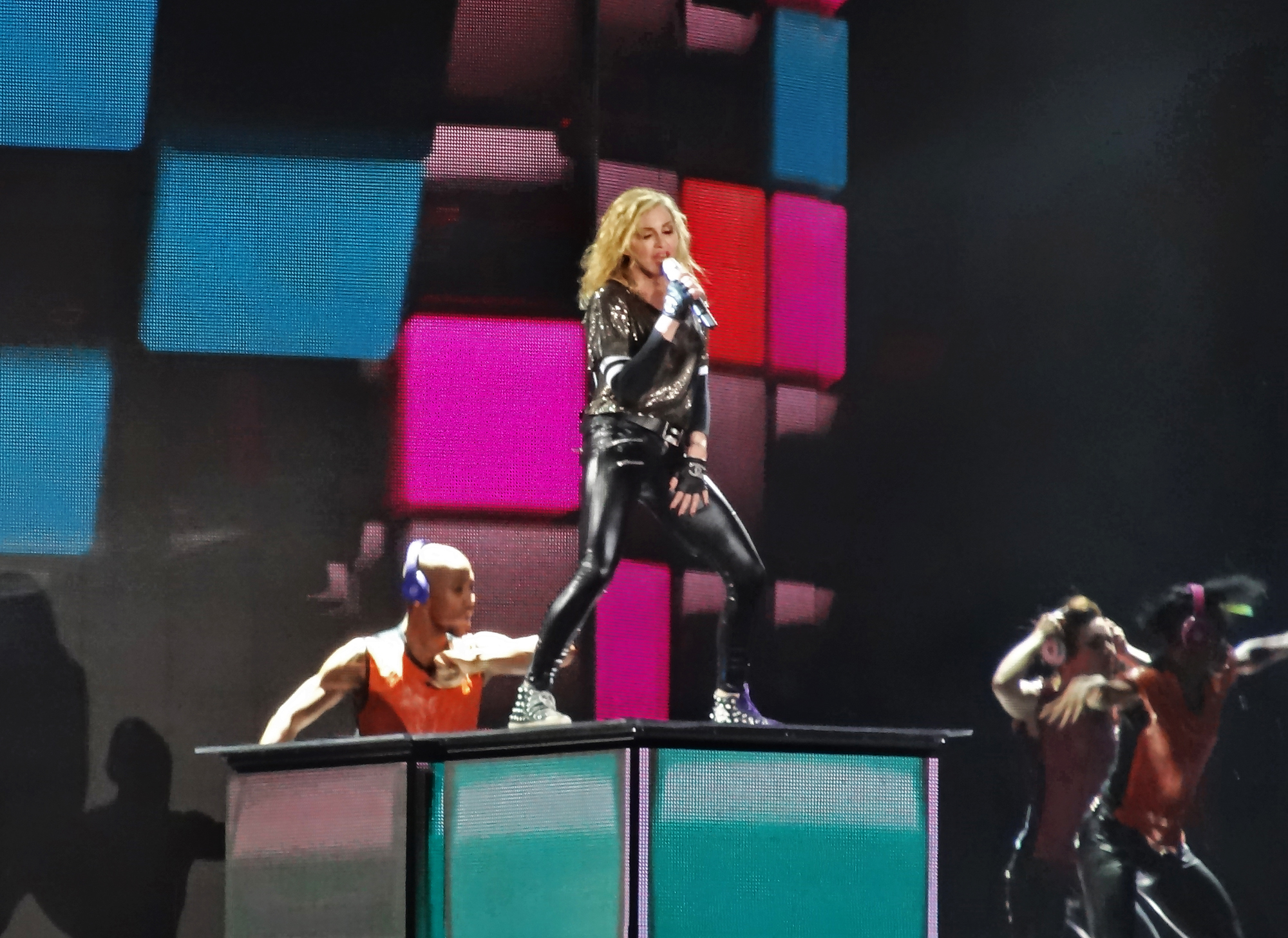 Madonna plays Yankee Stadium on 8 September 2012